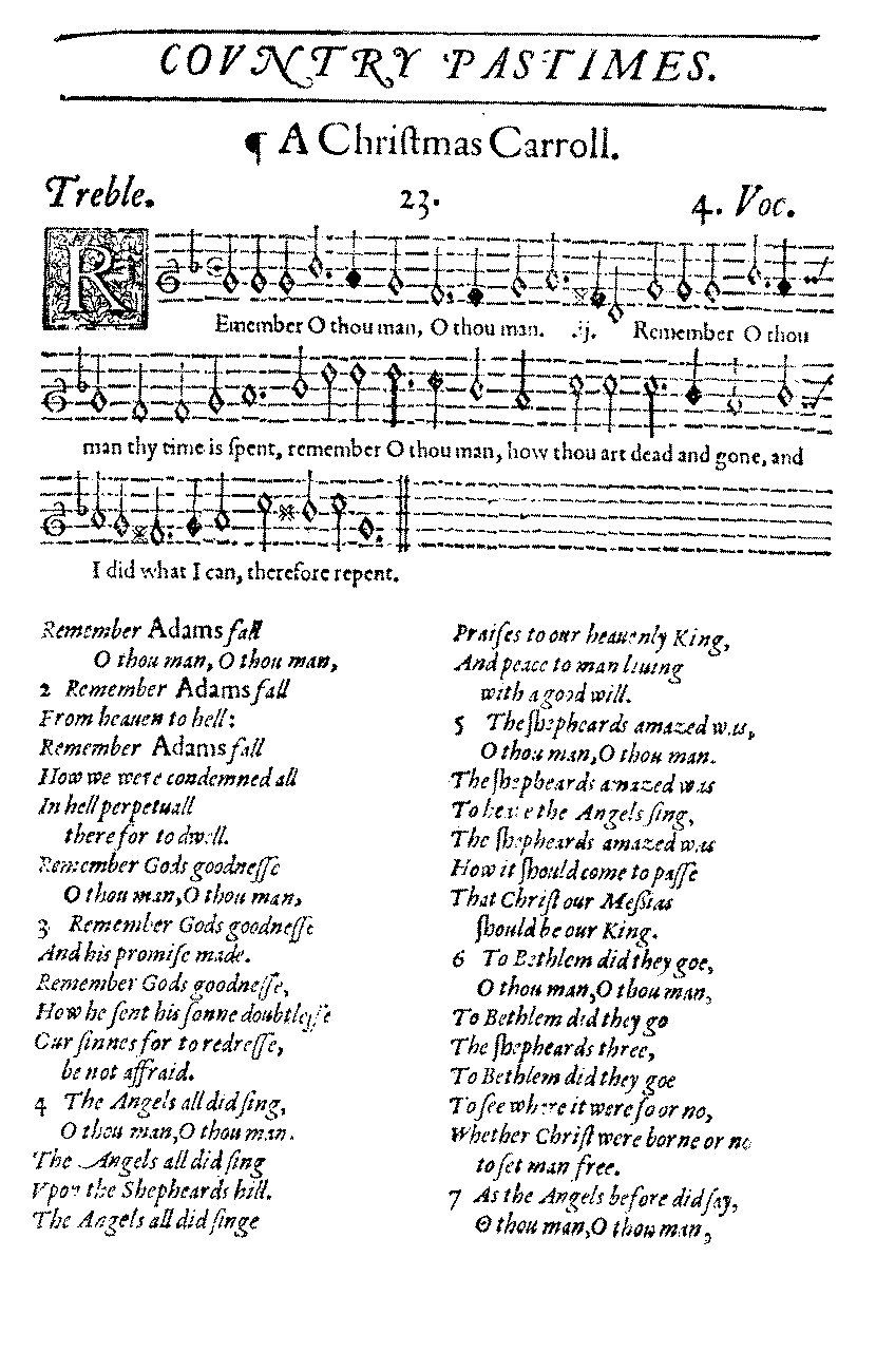 Treble part of Remember O thou man from Melismata by Thomas Ravenscroft